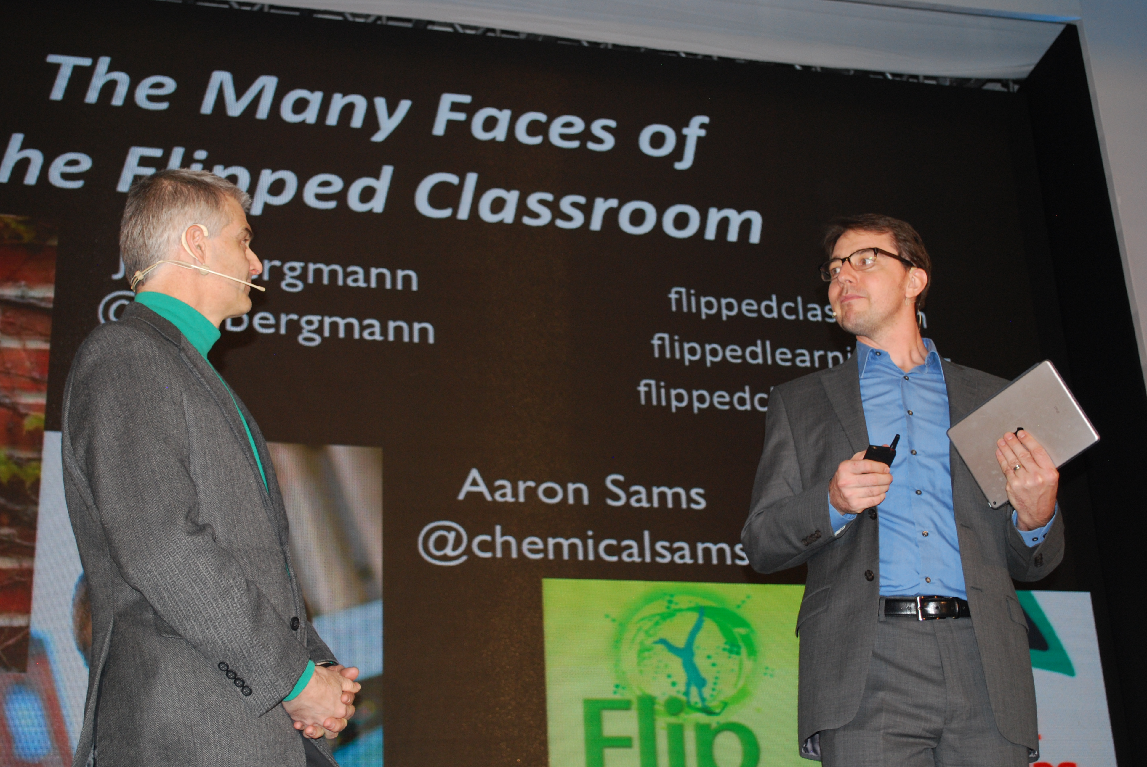 Aaron Sams and Jon Bergmann presenting at the 1er. Congreso Internacional de Innovación Educativa at the Tec de Monterrey, Mexico City Campus